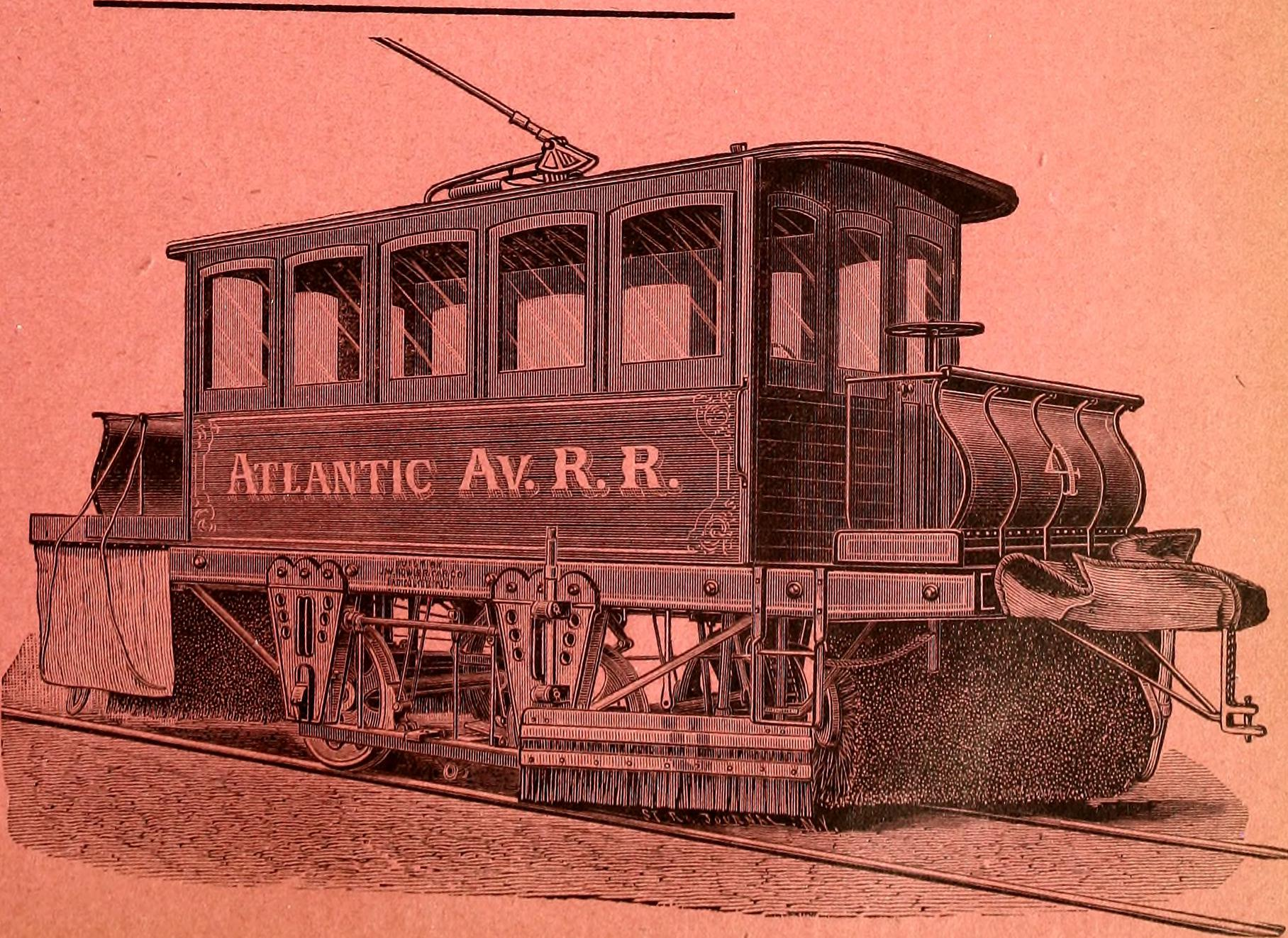 Title: The Street railway journal Year: 1884 (1880s) Authors: Subjects: Street-railroads Electric railroads Transportation Publisher: New York : McGraw Pub. Co. Text Appearing Before Image: 274A Snow Sweeper withfull length cab, themotorman operatingsame on the inside.Same as built by usfor Scranton Trac-tion Co. ELECTRIC SNOW SWEEPERS BUILT BY THE J. W. FOWLER CAR CO. WORKS AND GENERAL OFFICE,ELIZABETH PORT, N. J. Electric Snow Sweep-er to be operated withthe motorman on theplatform, motor oper-ating the brooms in-side cab. Same asbuilt by us for theAtlantic Aye. R. R.Co, Brooklyn, N. Y. Text Appearing After Image: 2 74B THE STREET RAILWAY JOURNAL. (Vol. X. No. 4. J. W. FOWLER CAR CO.